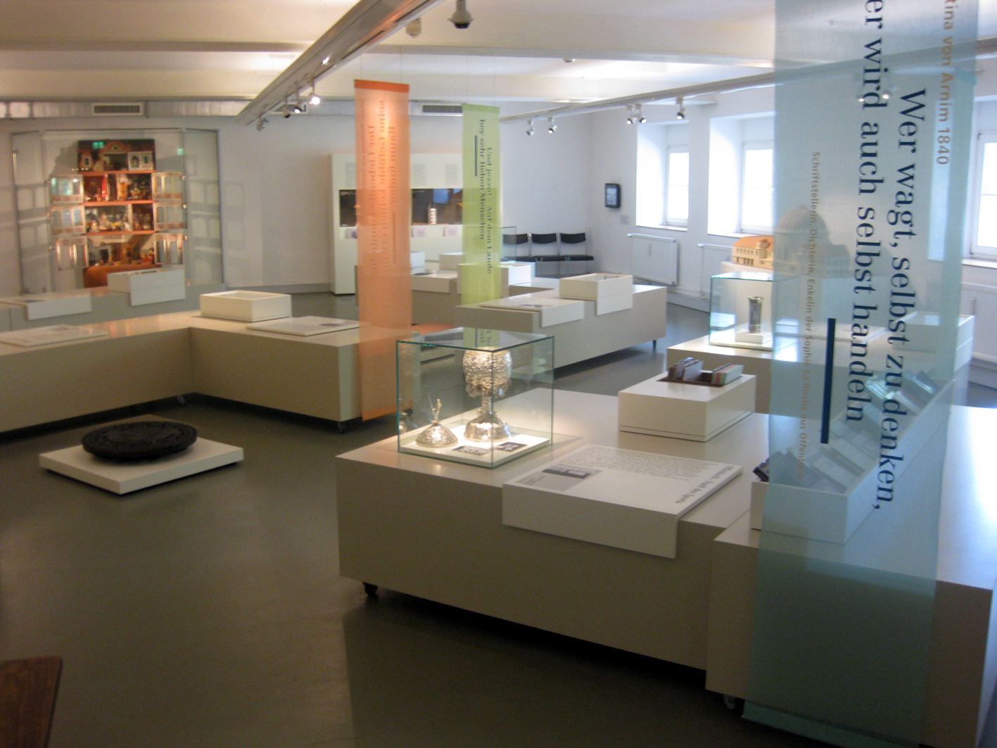 Haus der Stadtgeschichte (Museum) in Offenbach